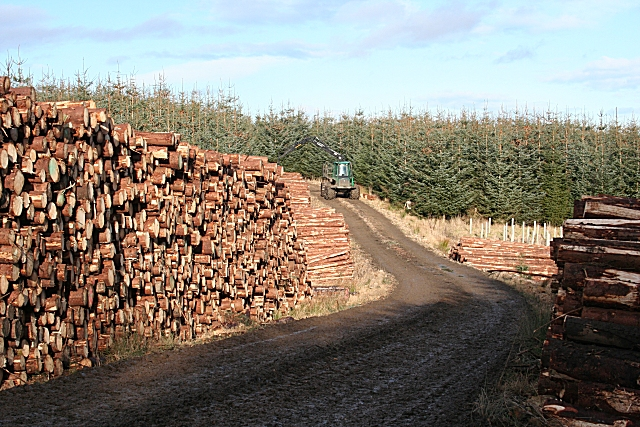 Timber Stacks. Trees harvested from the forest behind me awaits the lorry which will take it out to the sawmill.